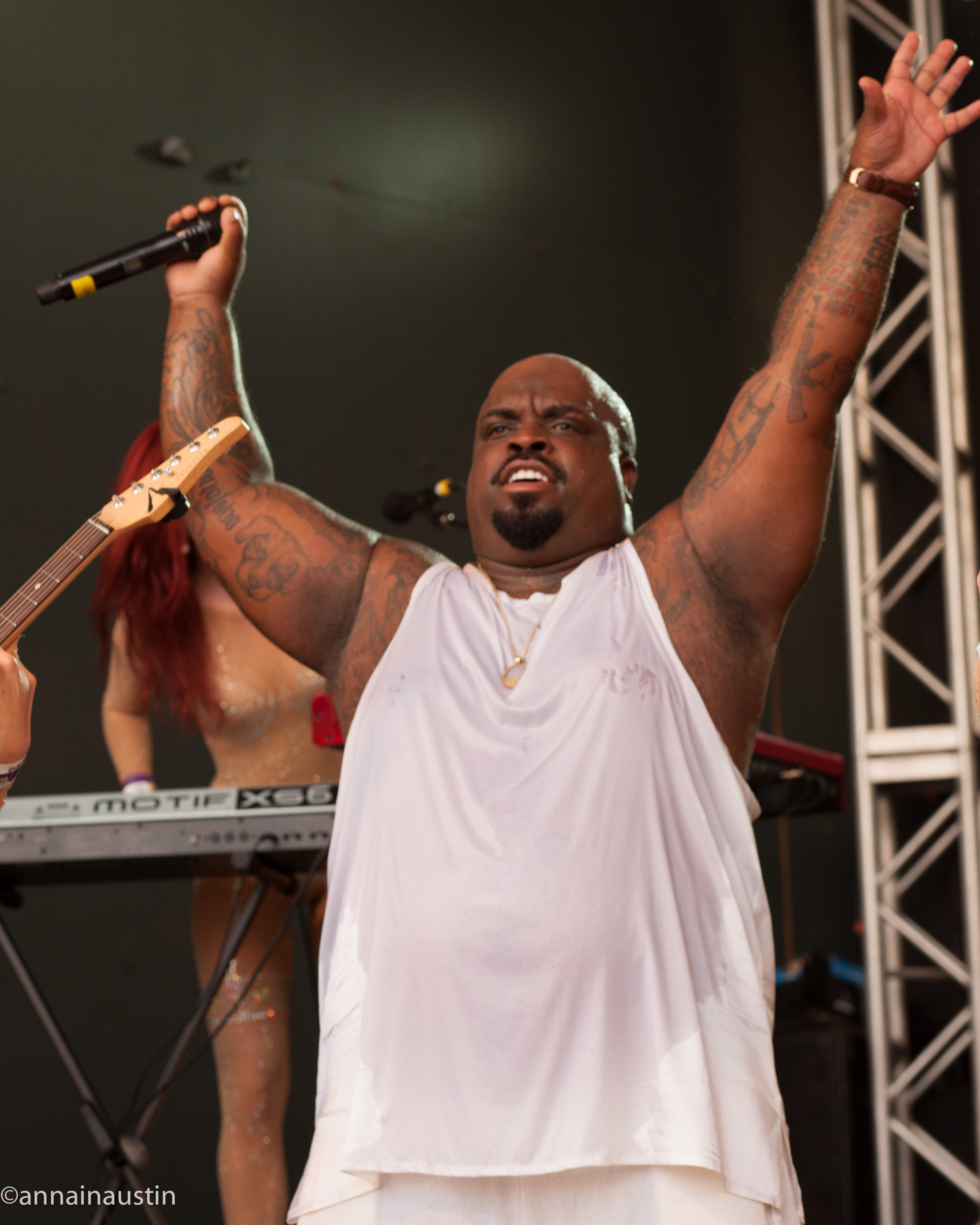 Cee Lo Green at Rachael Ray's Feedback Party SXSW 2014--58.jpg